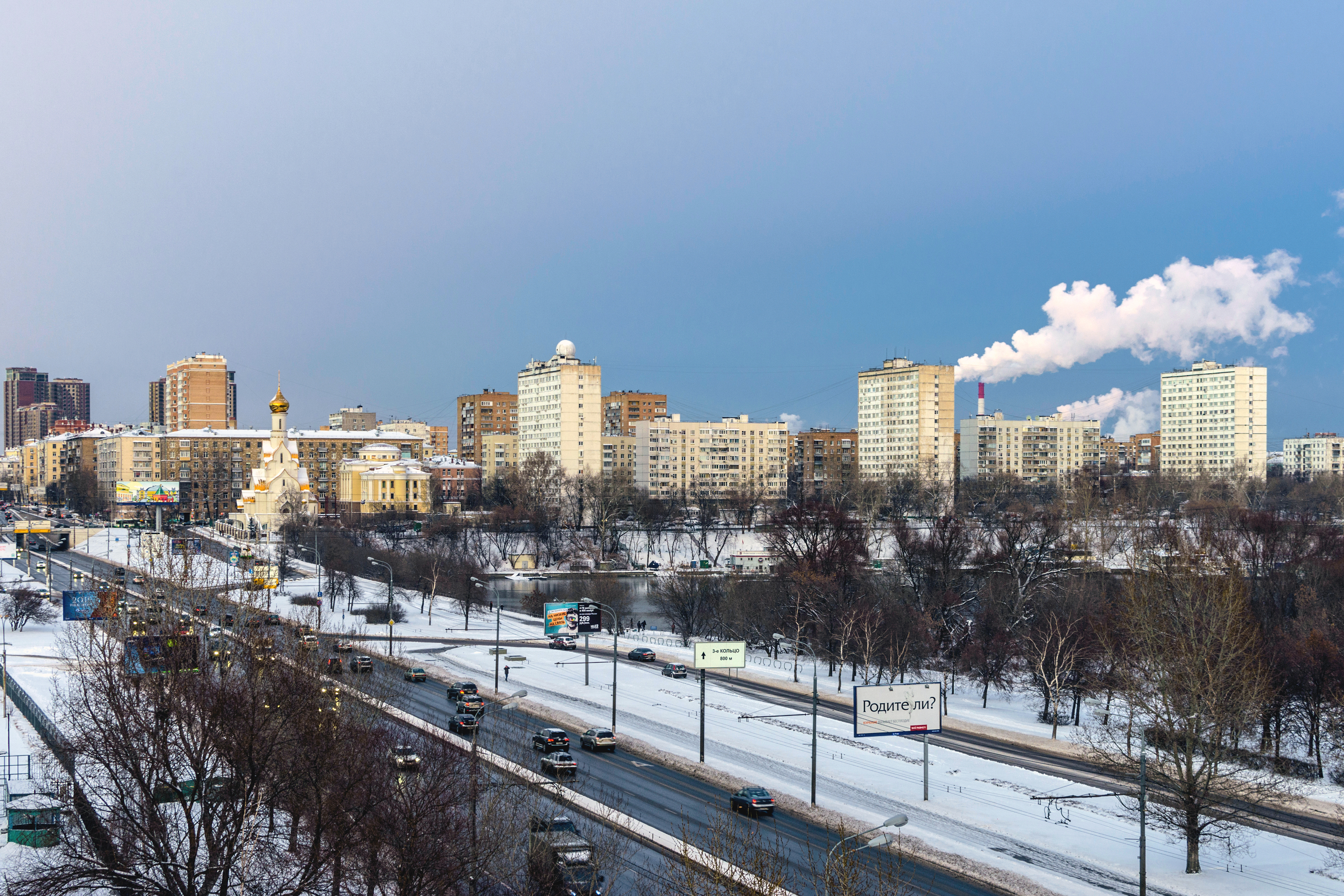 View to Yuzhnoportovy District from Andropova Avenue in Moscow